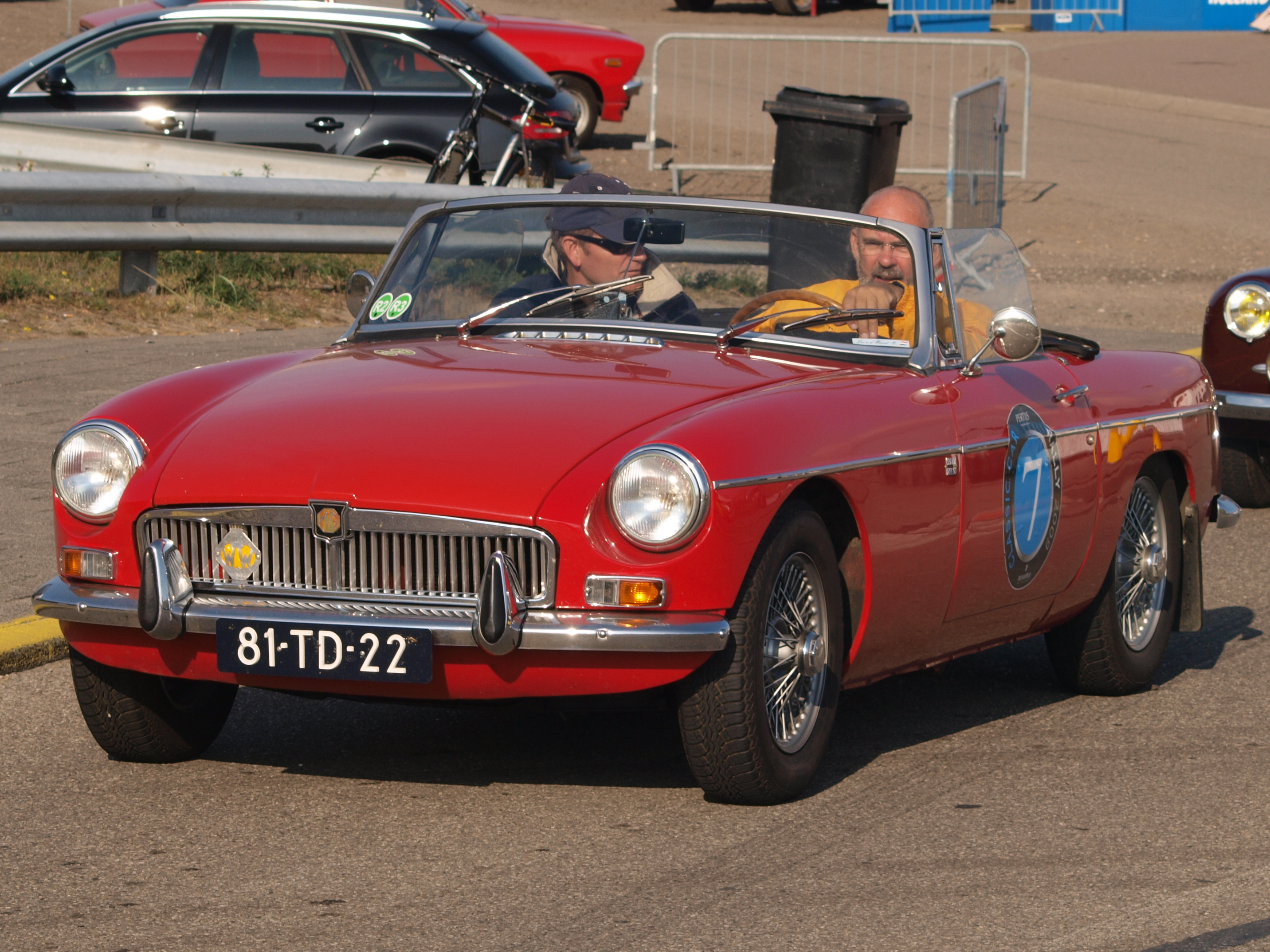 Photographed at the Nationaal Oldtimer Festival Zandvoort 2009, The Netherlands. OLYMPUS DIGITAL CAMERA